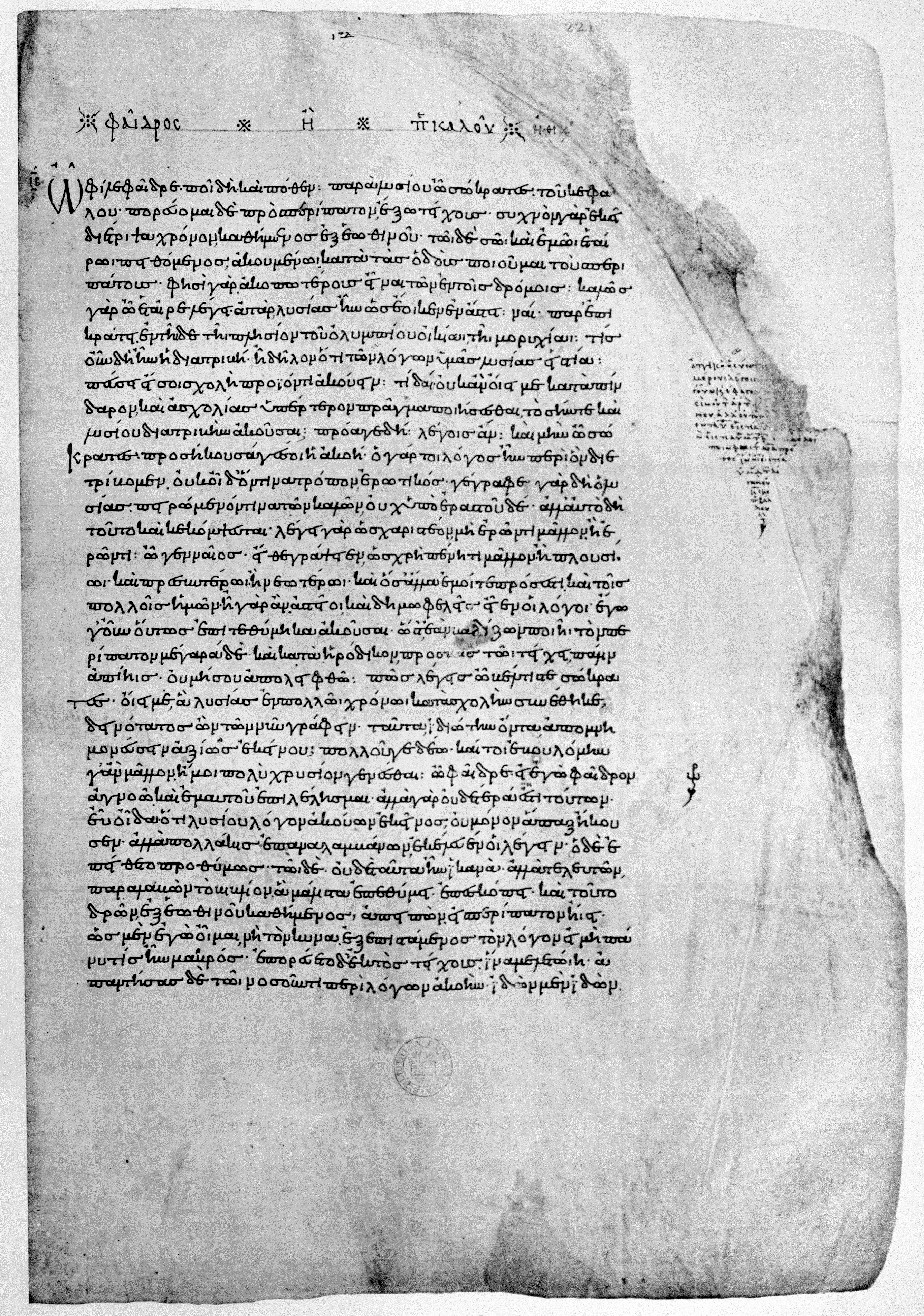 Page of the Codex Oxoniensis Clarkianus 39 (Clarke Plato). Dialogue Phaidros.